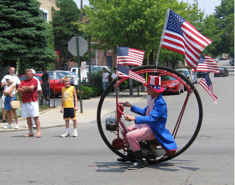 A participant in the 2005 Doodah Parade in Columbus, Ohio rides a monowheel.